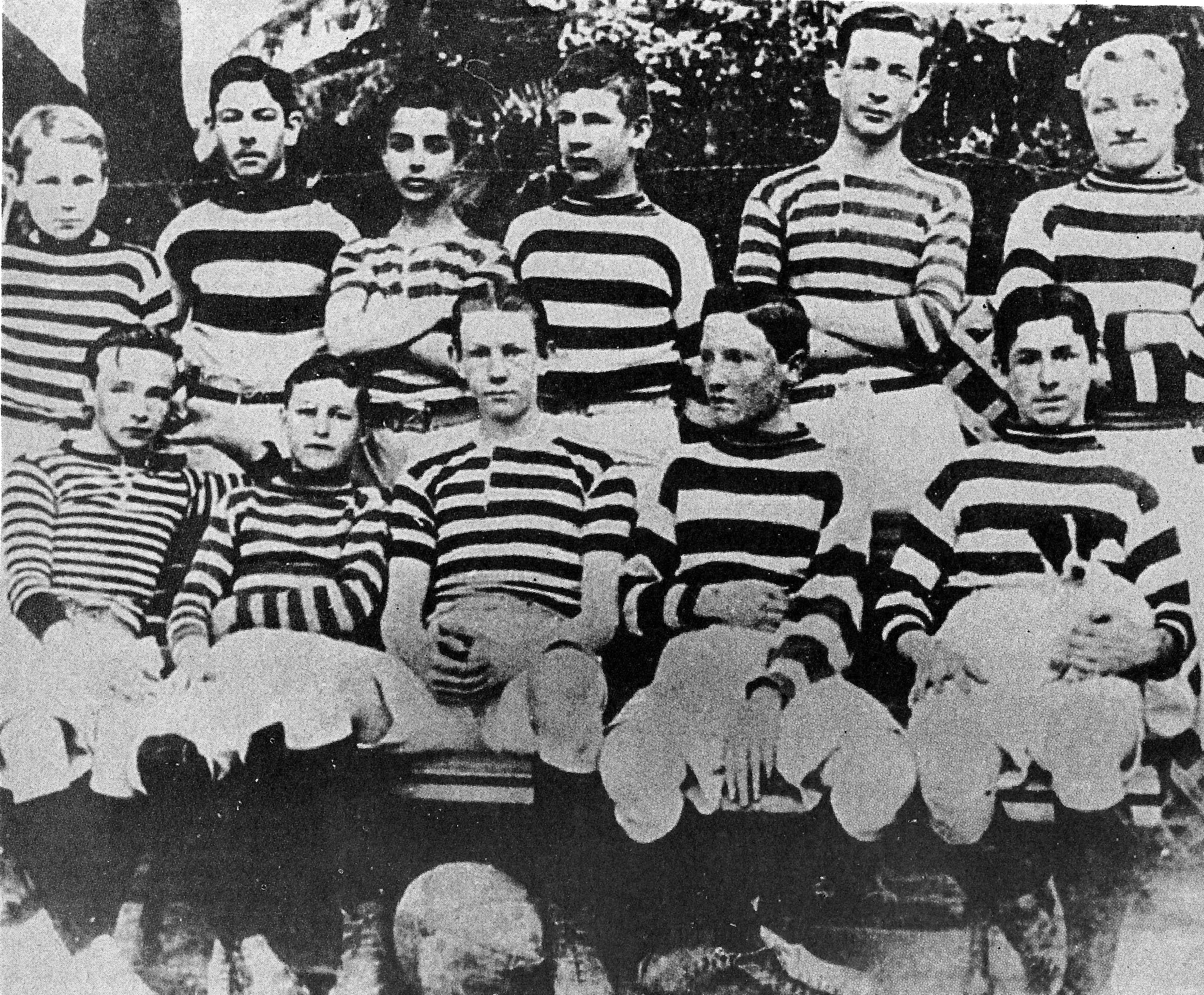 Buenos Aires English High School football team, later renamed "Alumni Athletic Club", which would become the most successful team during the amateur era of Argentine football. The club disbanded in 1911 although BAEHS has survived to date.